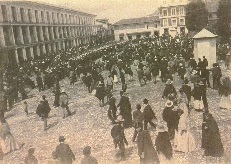 Military recruiting in The Bolivar Square. Bogotá, 1900.